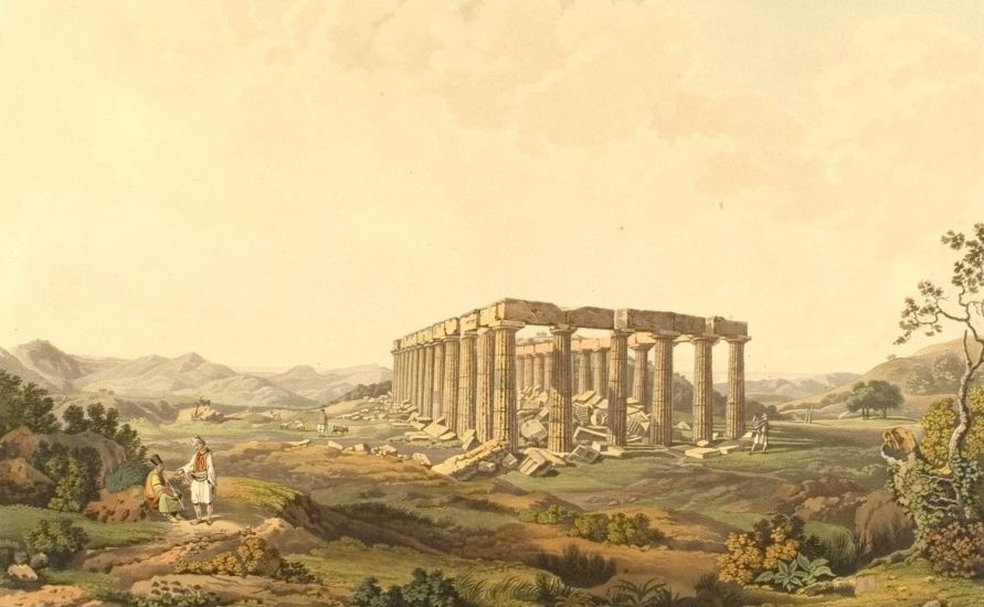 Temple of Apollo Epicurius.